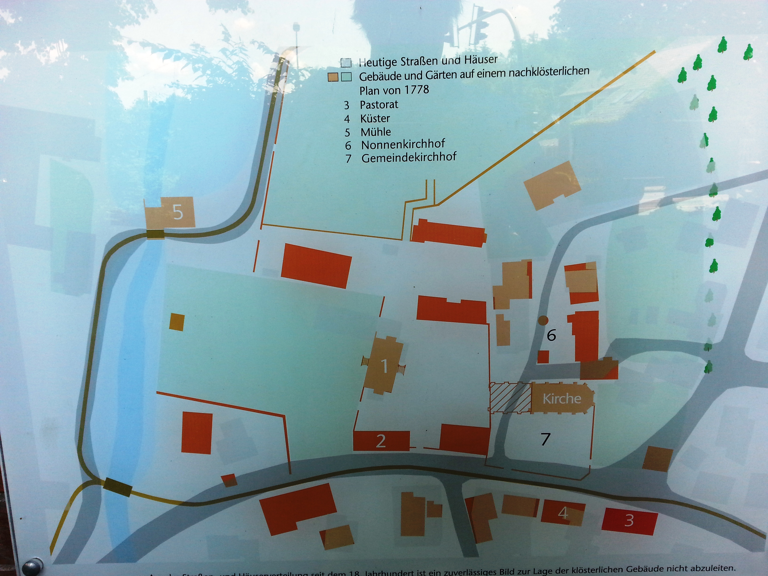 Map of the centre of Himmelpforten, covering the site of the former Himmelpforten Convent, indicating buildings today and by the 18th c.